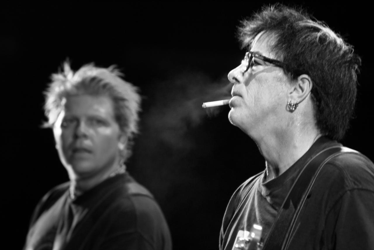 Dexter Holland (left) and Noodles (right) performing at the St. Augustine Amphitheatre, St. Augustine, FL, USA on the 17th of July 2009.